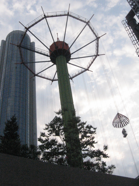 Game thing "sky flower" in Tokyo Dome city attractions. I practice medicine in 1978 and count 40 years.